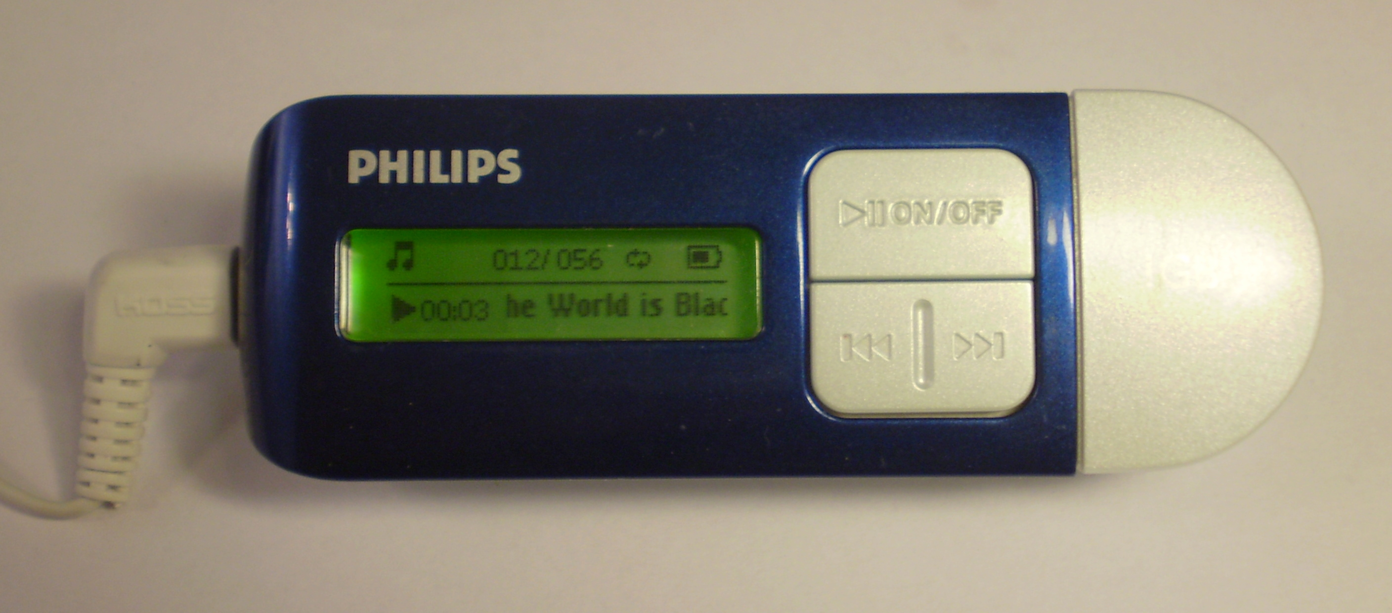 Philips SA1210 mp3 player